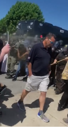 Hammond Indiana Mayor Thomas McDermott Jr. turns his back away as police pepper spray and tear gas BLM protestors.